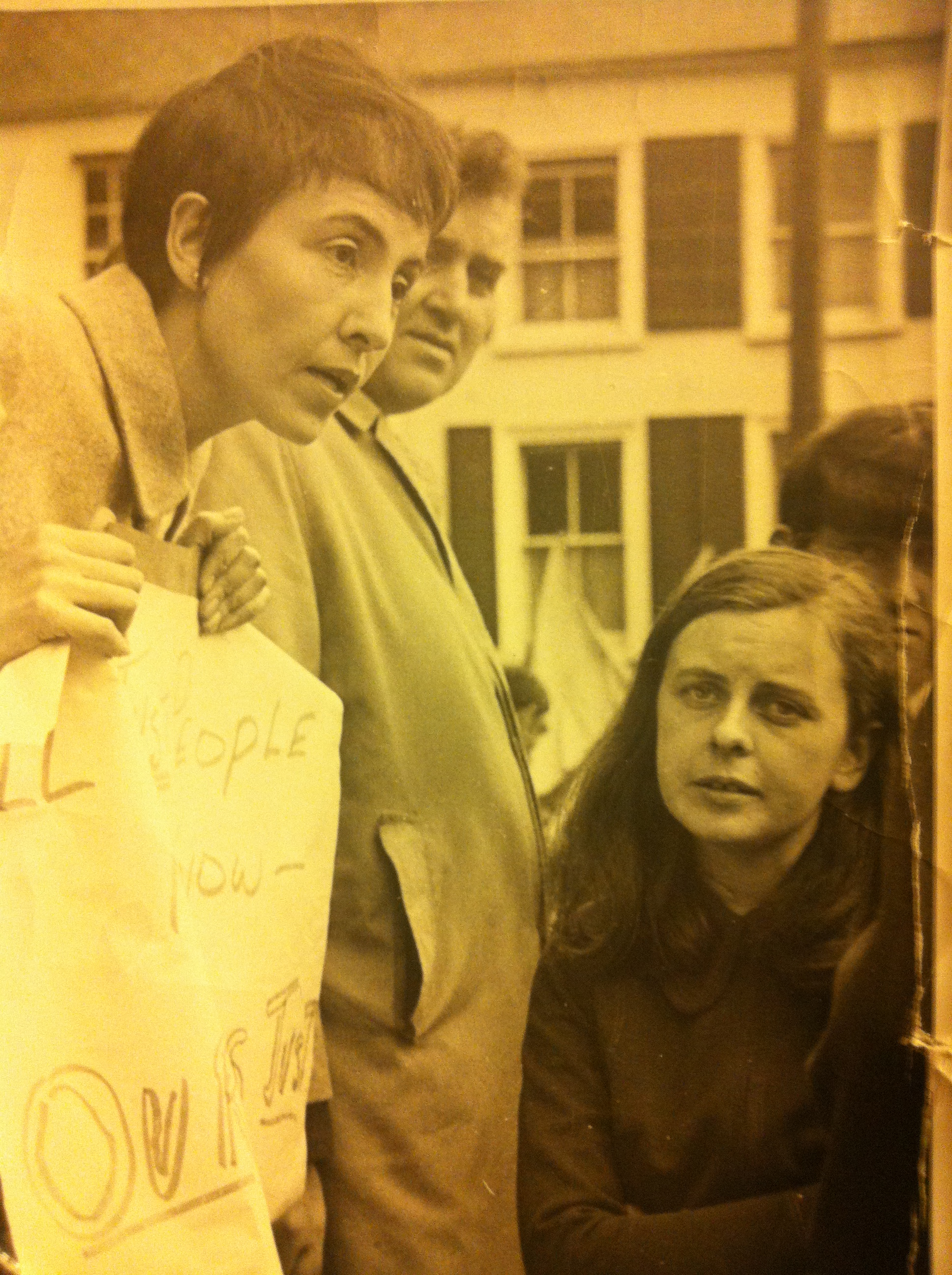 Civil Rights protest held in Omagh at the Courthouse, Thousands of people turned out in support to hear such orators as Bernadette McAlliskey (nee Devlin) in a call for Civil Rights for the Catholic/Nationalist population.